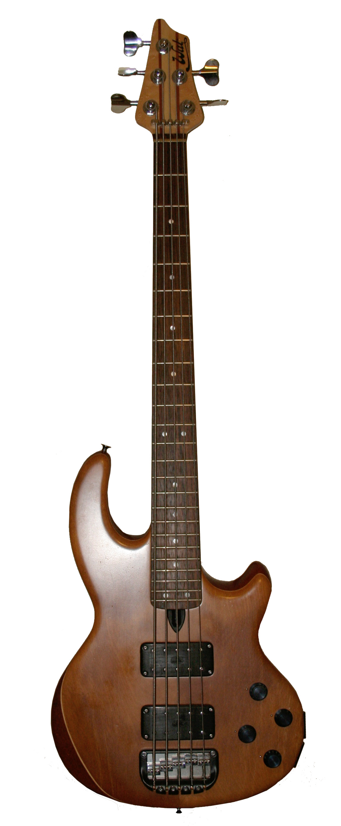 Wal 5 string bass guitar. Taken by Dinobass 7 may 2007